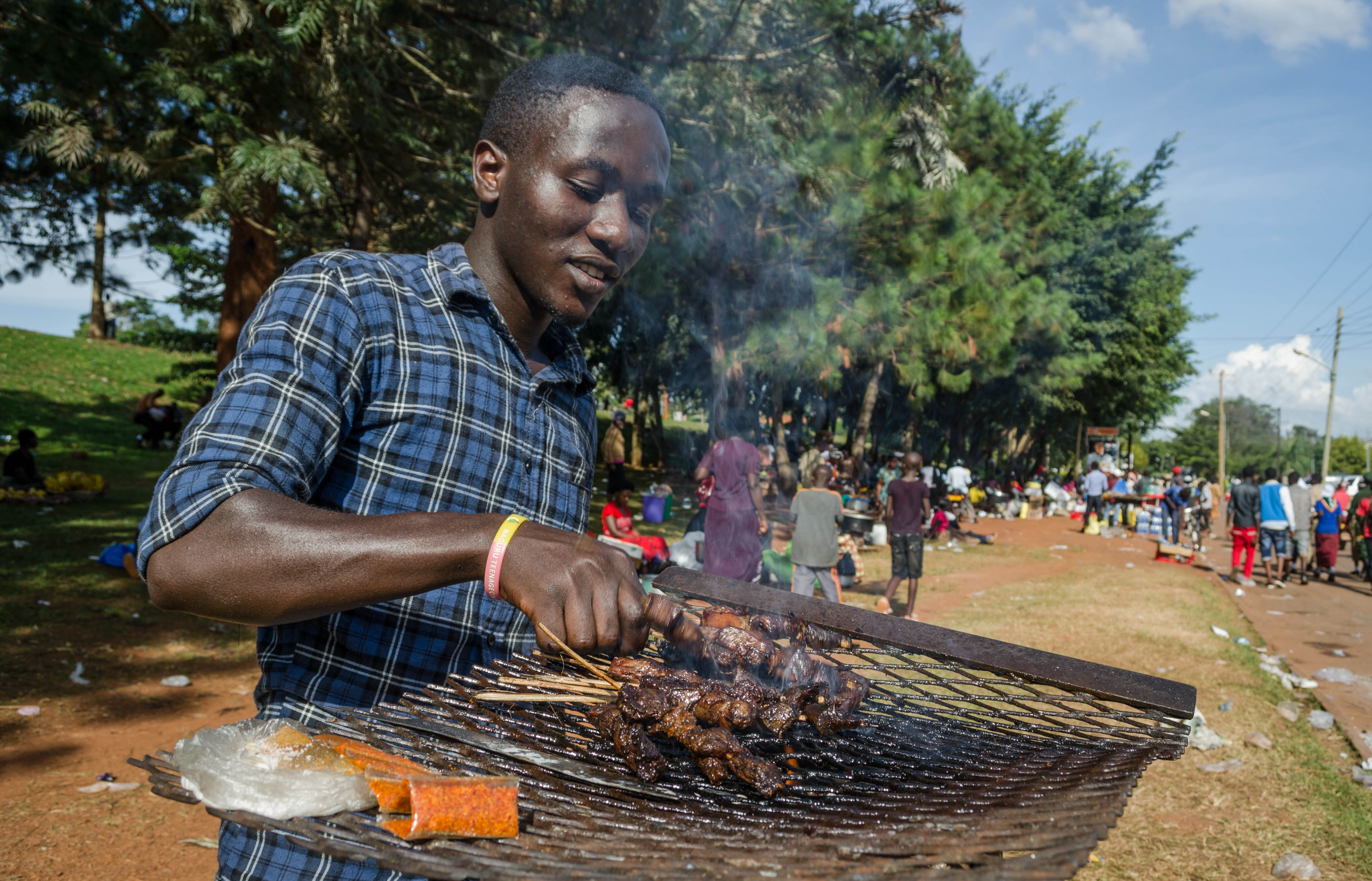 On events that take place around the city, people make money by roasting beef on sticks, and selling it to passers by. This is an image of food from Uganda